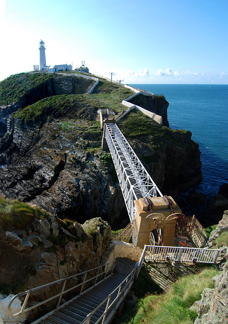 Bridge to the lighthouse At the bottom of the 400 steps down you reach a bridge across to South Stack.